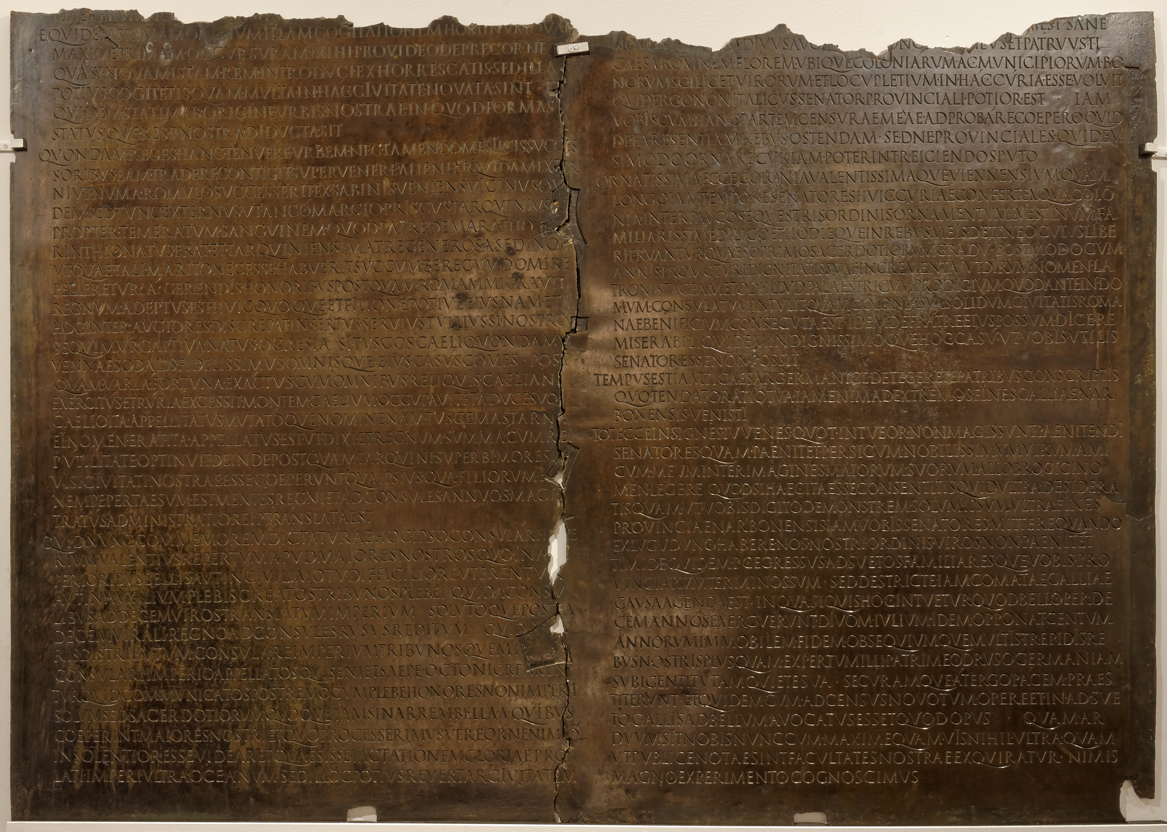 Claudian table, copy of the speech done by Claudius in roman Senat.